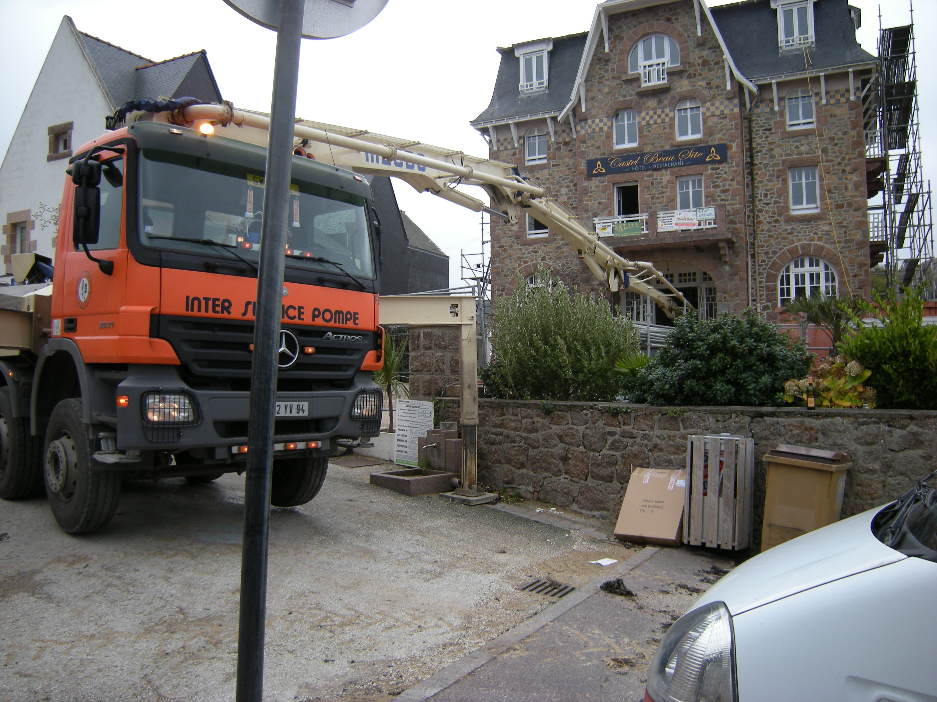 Concrete pump in action in Ploumanac'h, Perros-Guirec, Côtes-d'Armor, France